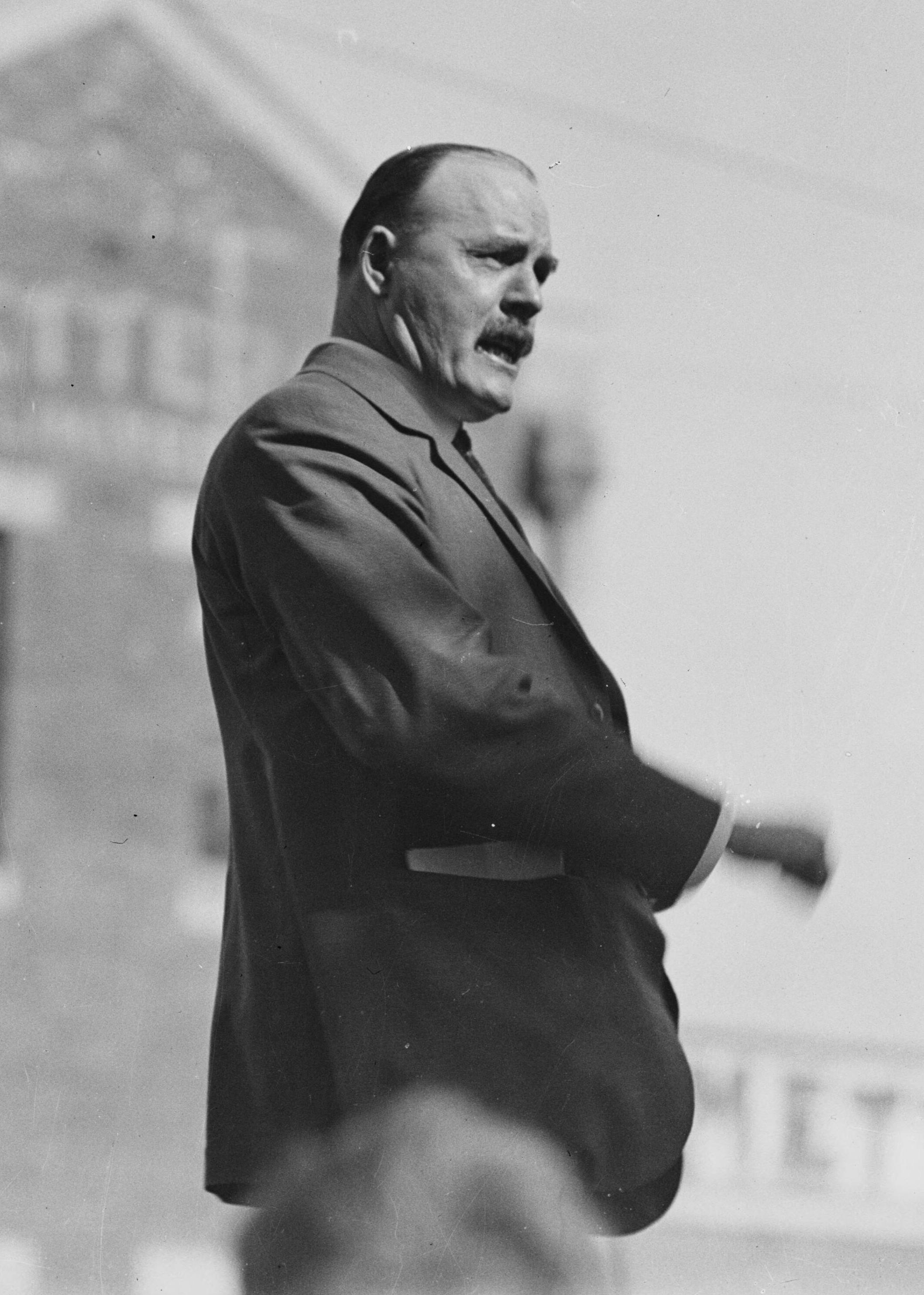 Jack Lang, Australian politician, addressing a crowd